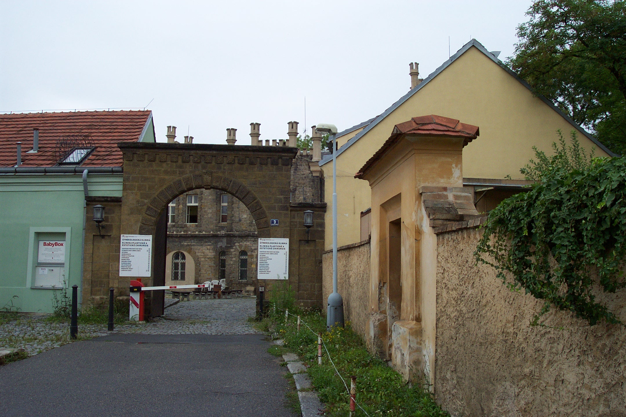 Old part of Hloubětín, Prague, CZ